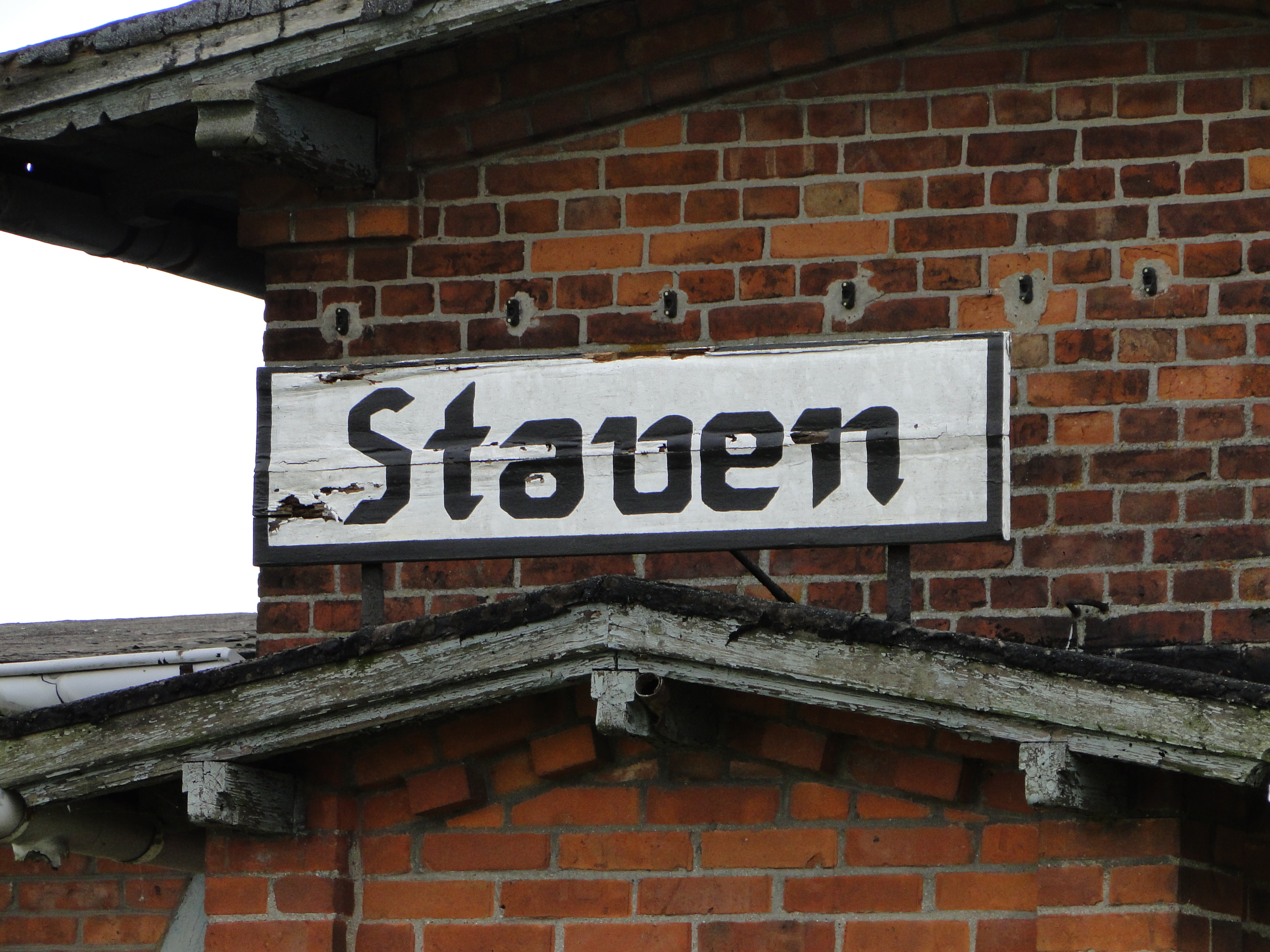 Former train station at railway line Neubrandenburg-Friedland in Staven, district Mecklenburg-Strelitz, Mecklenburg-Vorpommern, Germany